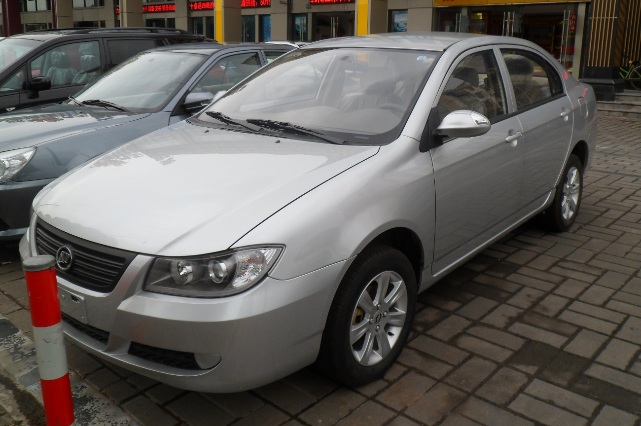 Lifan 620 photographed in Shanghai, China.